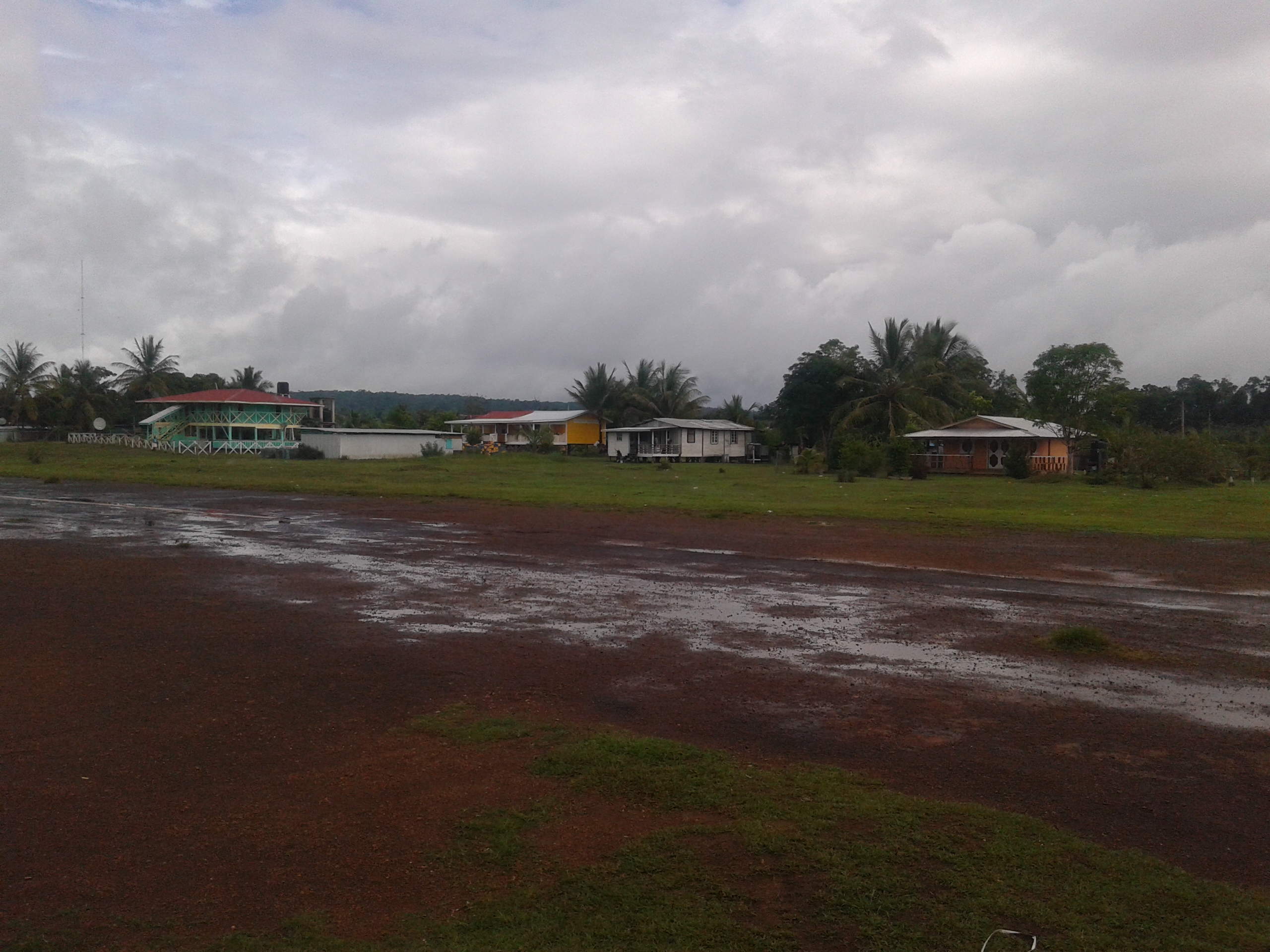 View of Western end of kamarang from side of airstrip.